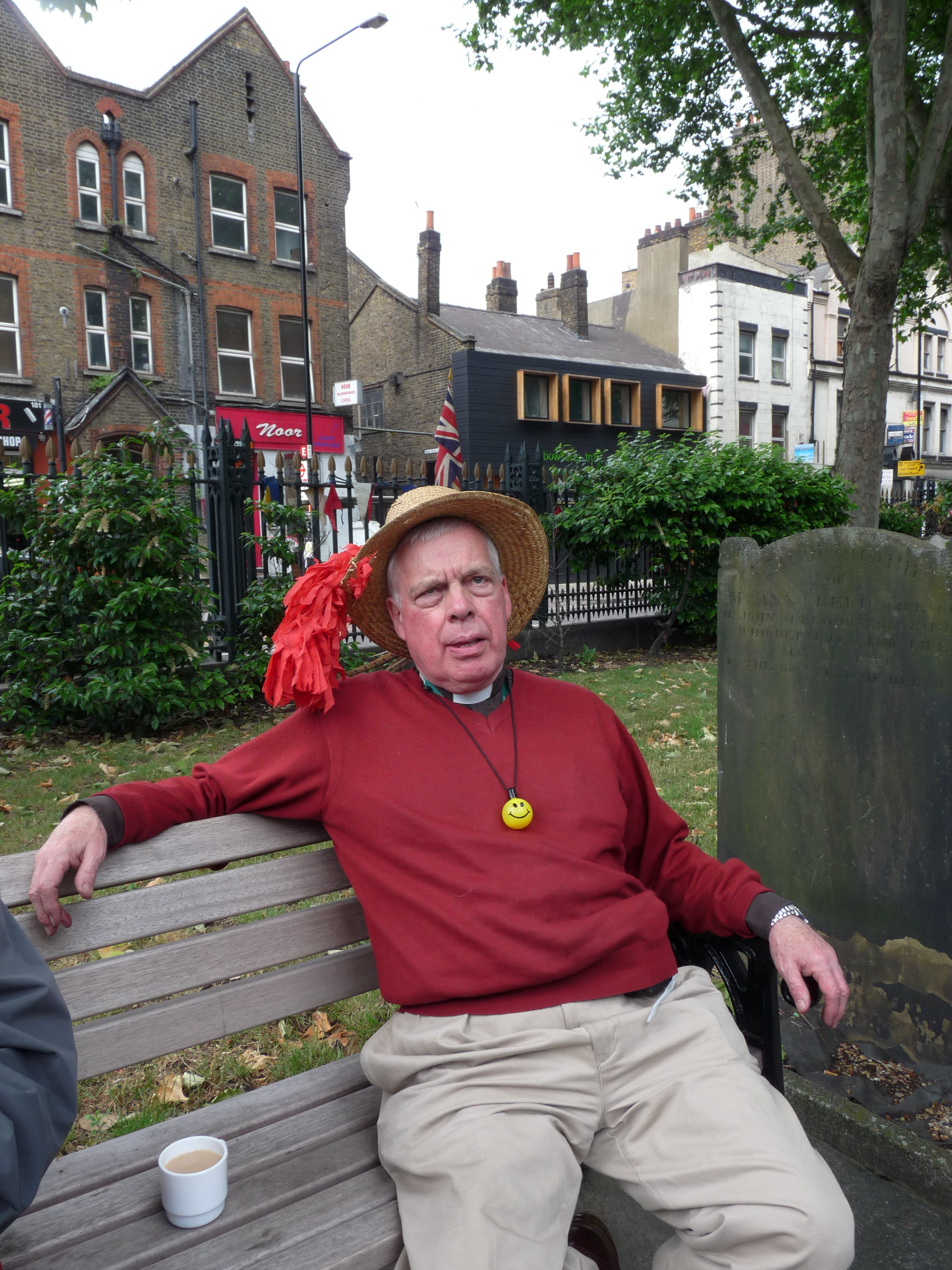 Reverend Michael Peet at Bow Church (London E3)